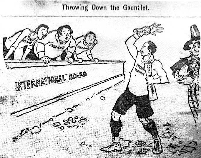 Cartoon from the Western Mail depicting the Welsh Rugby Union reaction to the Gould Affair.